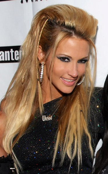 Jessica Drake - Hollywood, CA on July 10, 2010 - Photo by Glenn Francis of